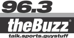 Prior logo of KBZU.